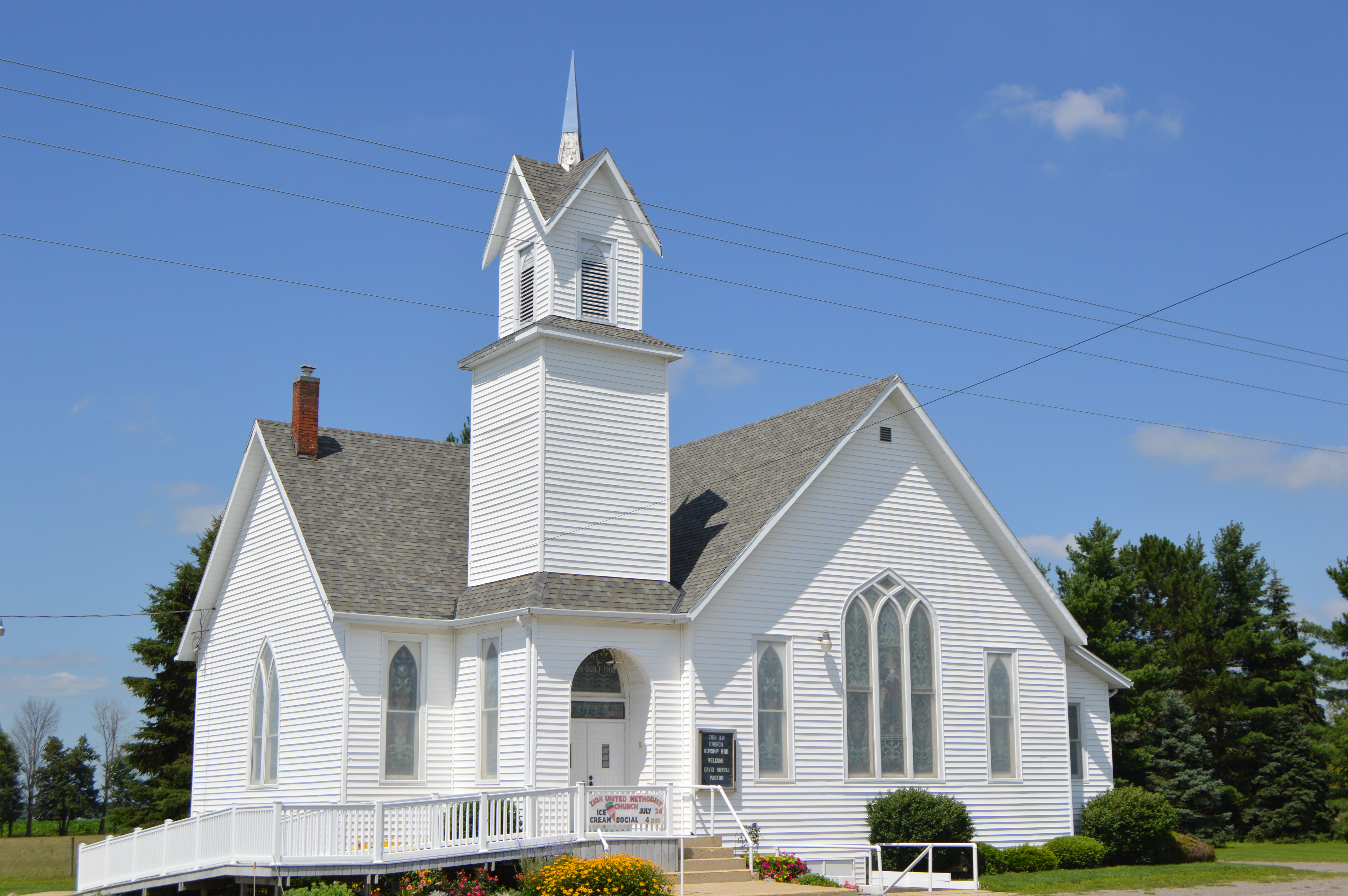 Front of Zion United Methodist Church, located at the junction of Conant and Zion Church Roads in northern Amanda Township, Allen County, Ohio, United States.